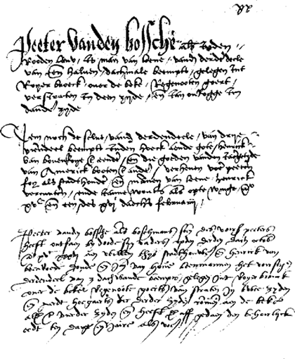 Een kopie uit het "Leenboeck vander Horst" , een boek met de registratie van de leenmannen van Horst, Rode en Cortelke (schepengriffie) in het jaar 1526 Rijksarchief Leuven ____Schepengriffies van Brabant__ invent./karton Nº 65 (oud nummer 1593) __ blz 20